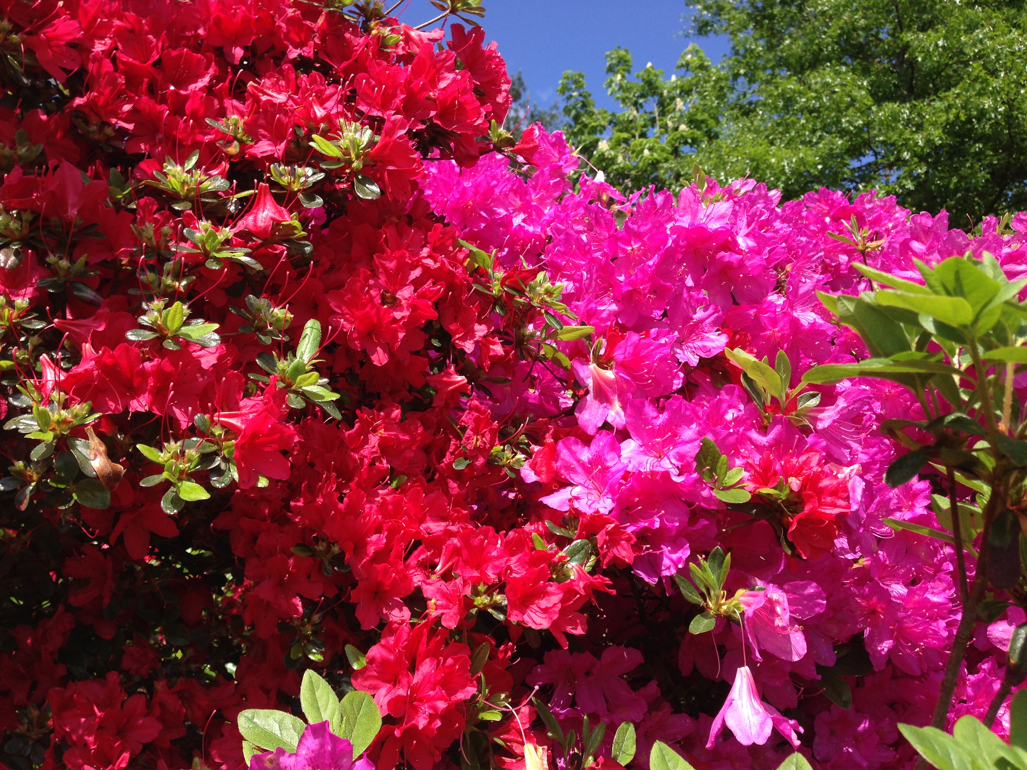 Pink-purple-flowered and red-flowered Azaleas in front of an old house on Spruce Street (Mercer County Route 613) in Ewing, New Jersey